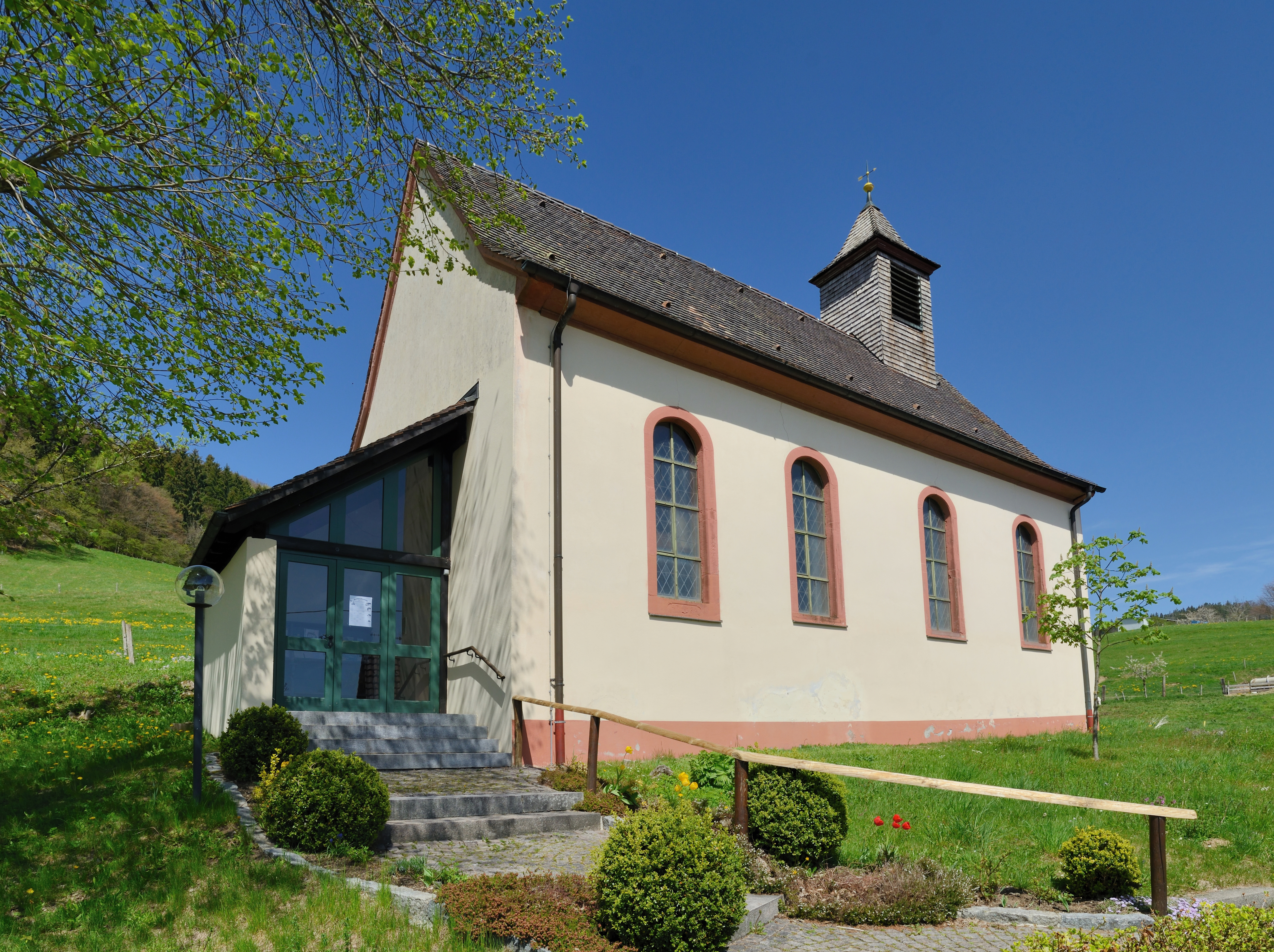 Gresgen: Protestant Church